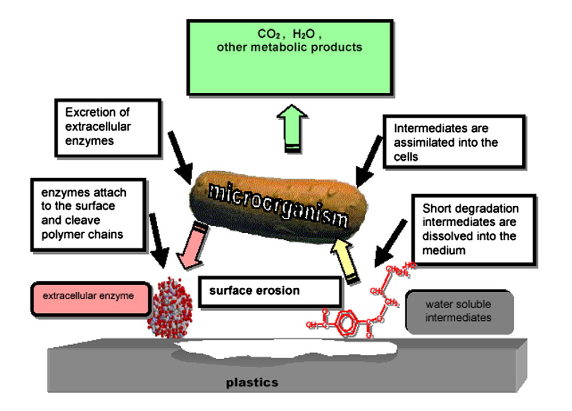 The steps in the mechanism of microbial degradation shown under both aerobic and anaerobic conditions.